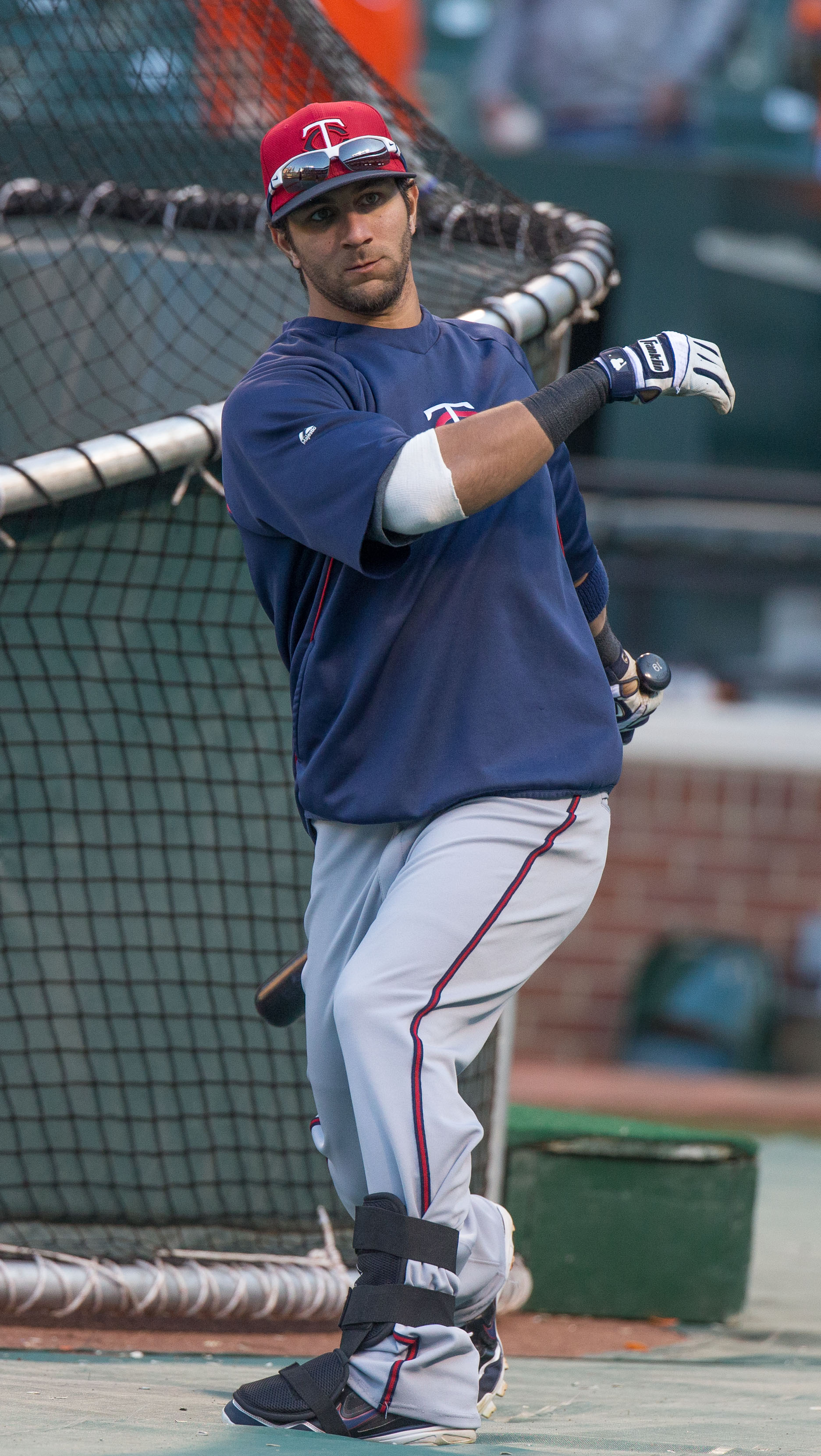 Minnesota Twins outfielder Darin Mastroianni – Minnesota Twins at Baltimore Orioles April 6, 2013